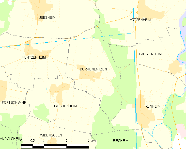 Map of French municipality